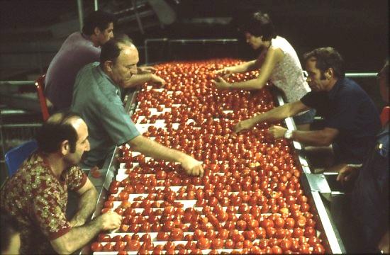 Gan-Samuel - sorting tomatoes at the factory in 1, Industry in Israel